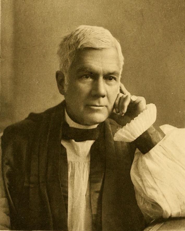 Bishop William Walsham How